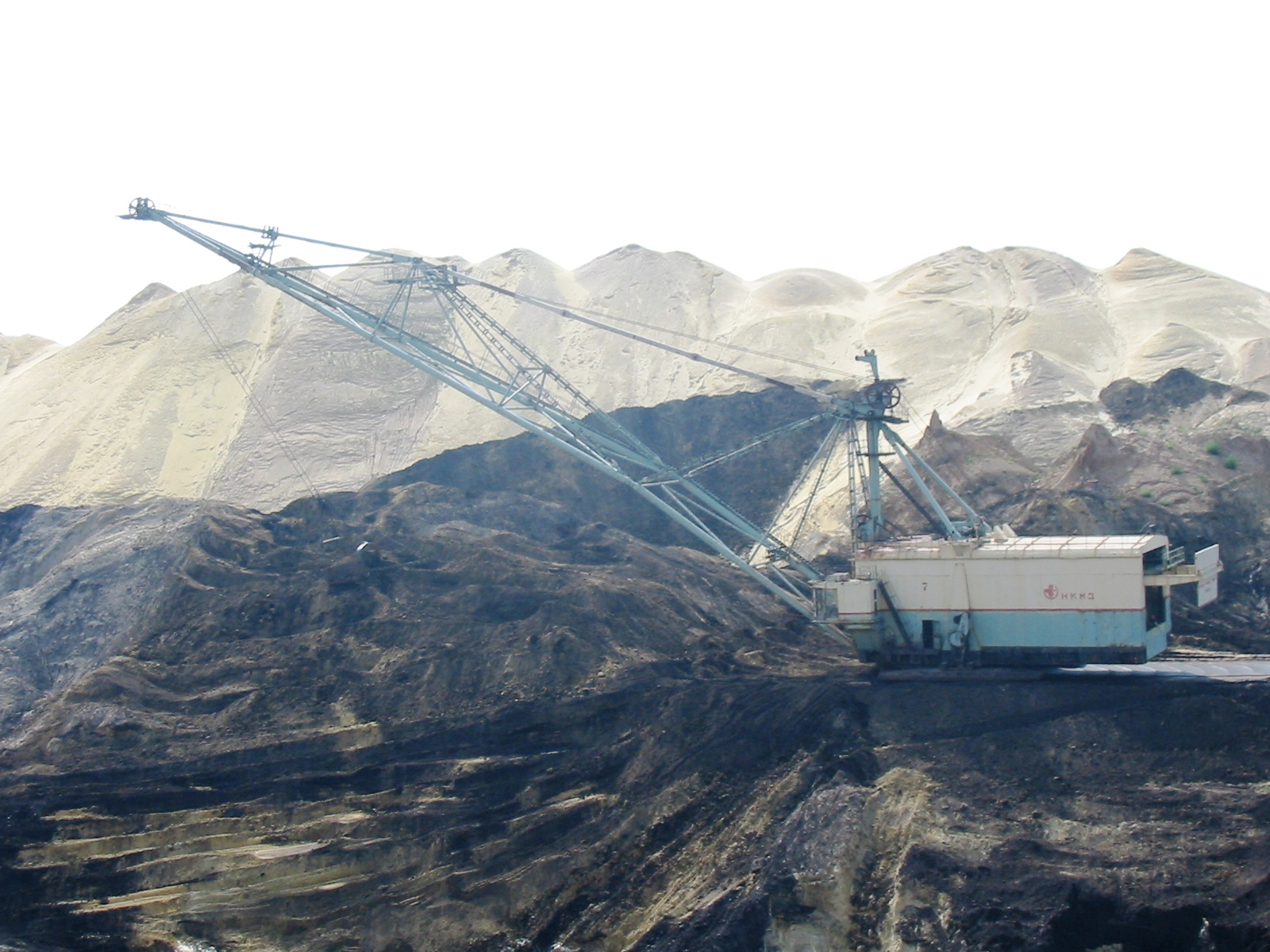 Dragline